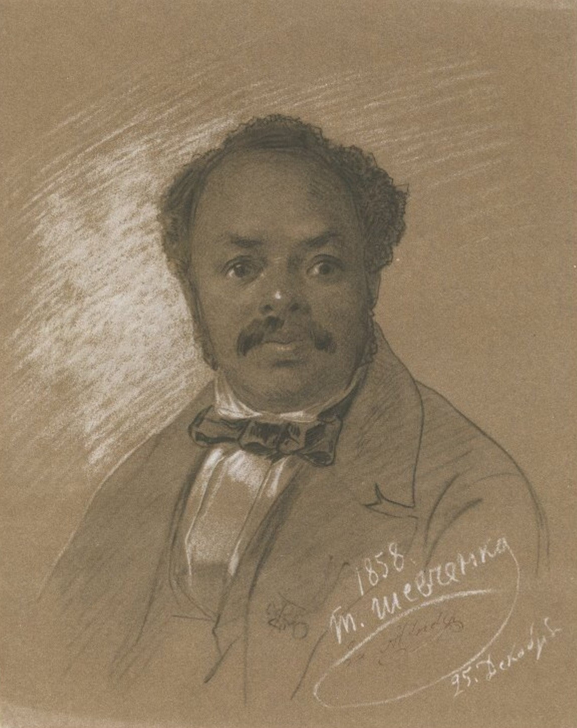 Portrait of Ira Frederick Aldridge (1807-1867)